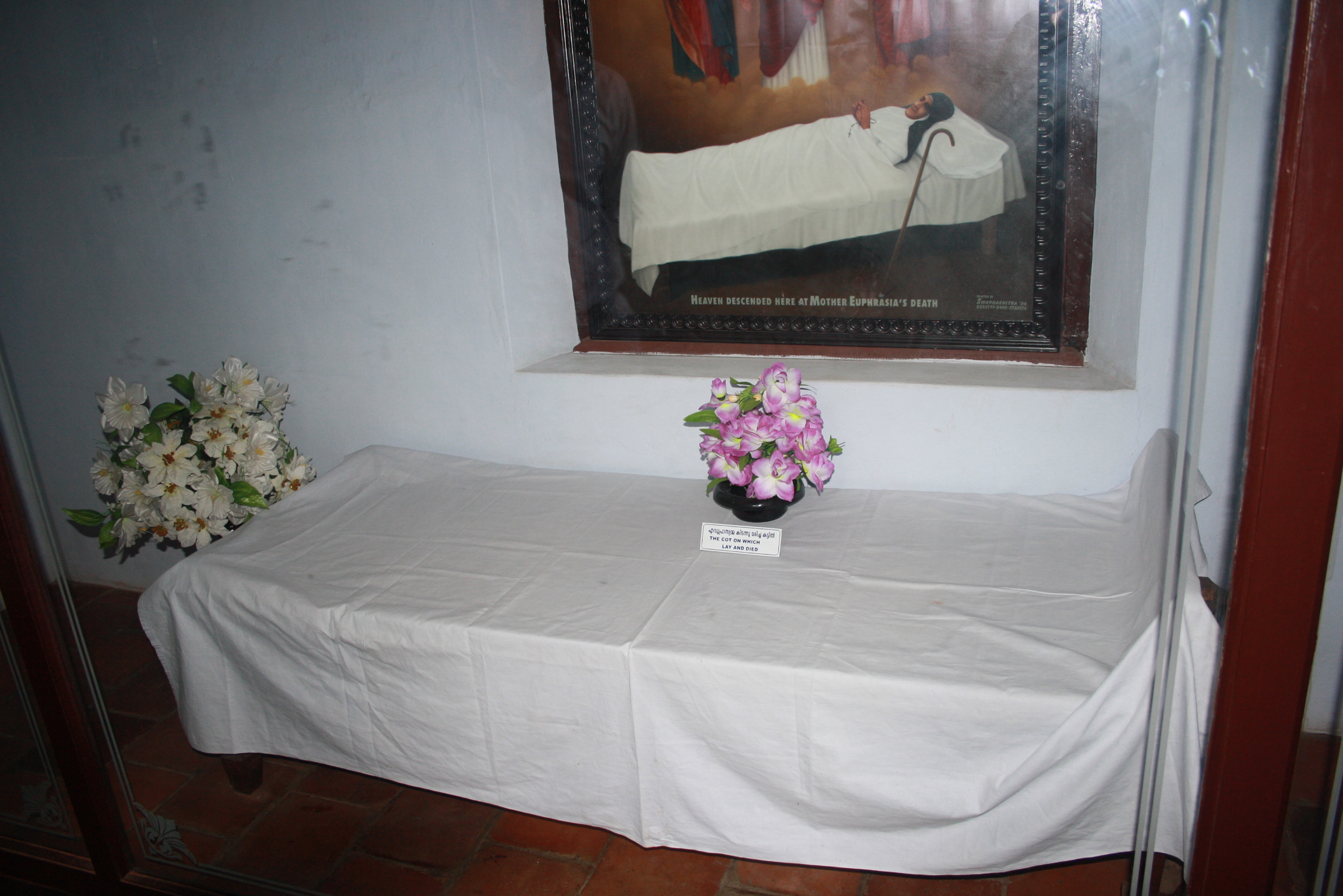 The bed on which Blessed Euphrasia Eluvathingal took her last breath in Ollur convent, shown in the museum.